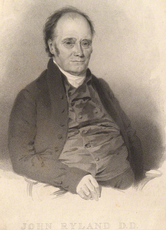 Portrait of John Ryland (1753–1825), English Baptist minister.